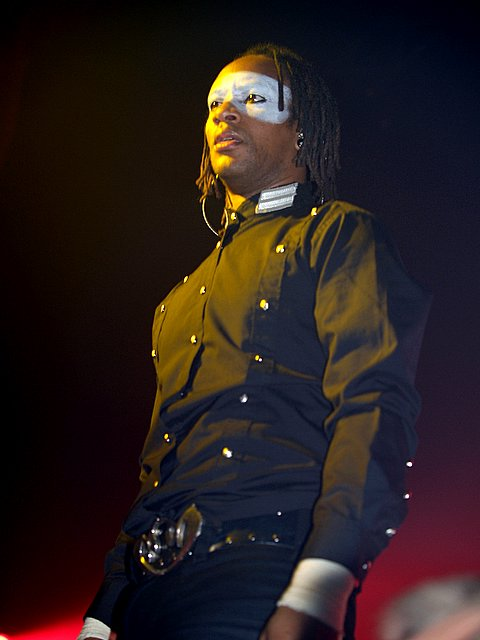 Released under license with permission of photographer Original